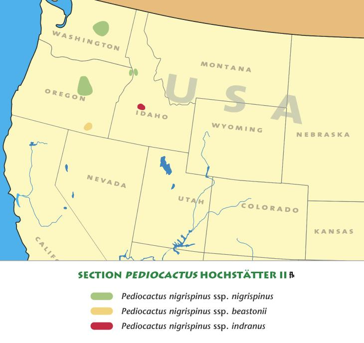 Distribution map of Pediocactus nigrispinus and subspecies.